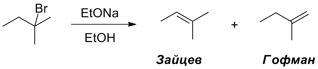 Zaitsev Hofmann Regioselectivity Ru